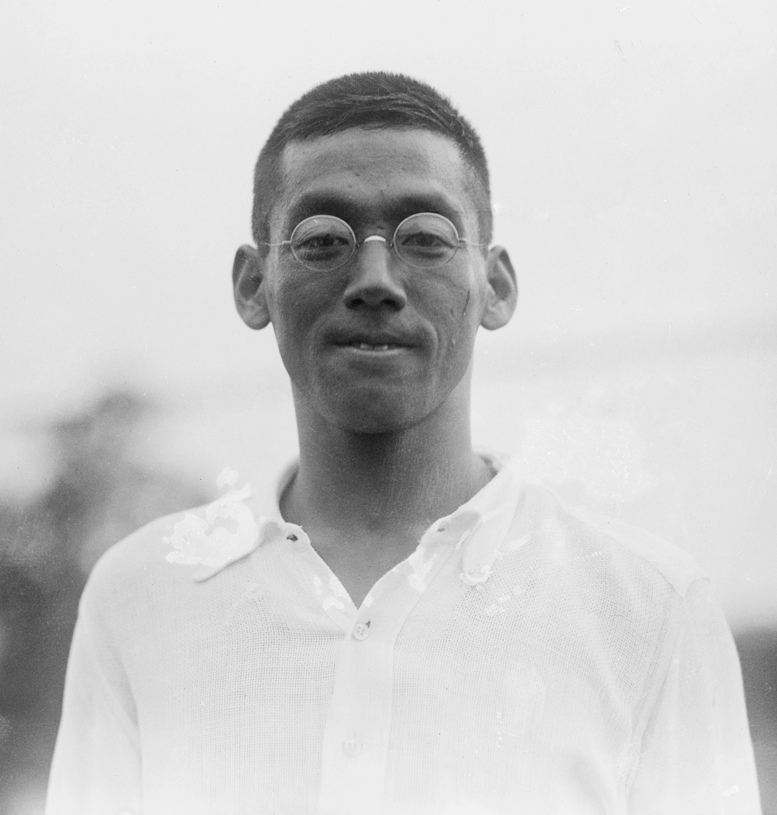 Japanese tennis player Ichiya Kumagae probably at the U.S. National Championship in Forest Hills, New York, in August 1916.